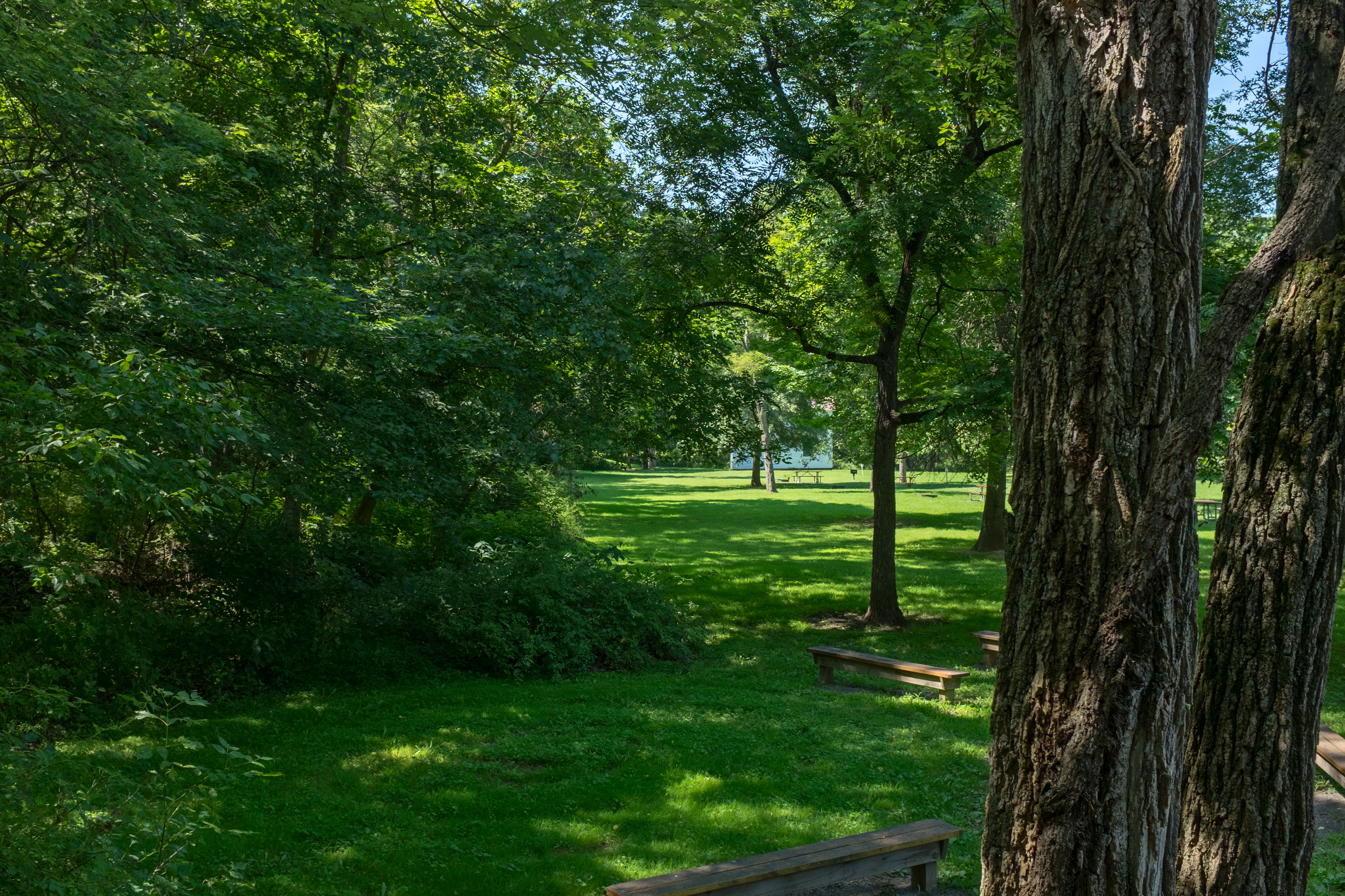 Campground, about a half a mile upstream of the Paw Paw tunnel, by the superintendent's house.